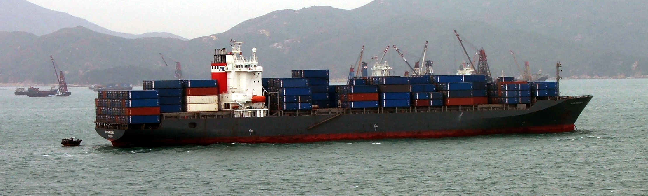 PIL container vessel roads of Hong Kong